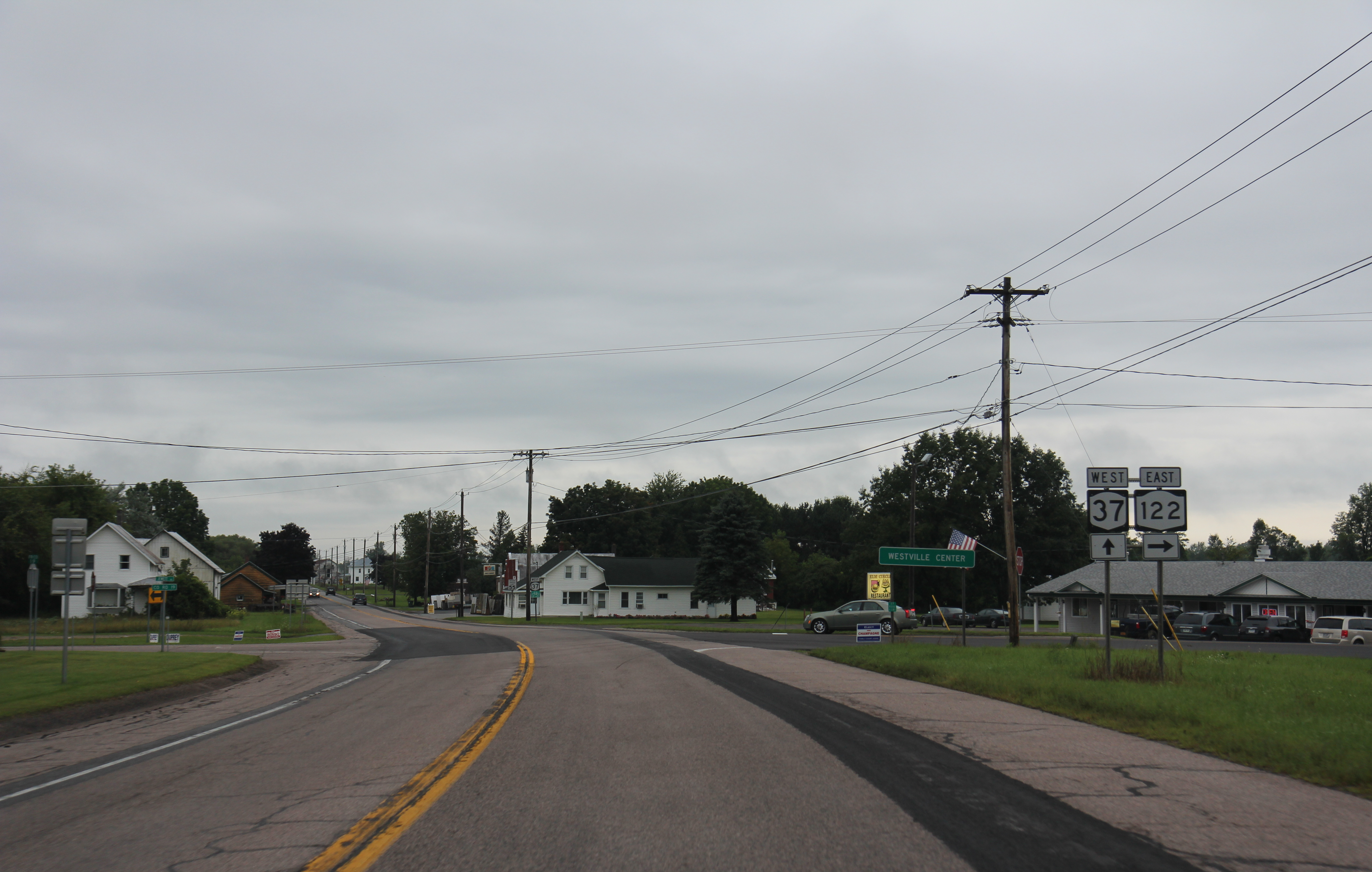 The sign for Westville Center, New York on NY State Route 37 at the west terminus of NY State Route 122.